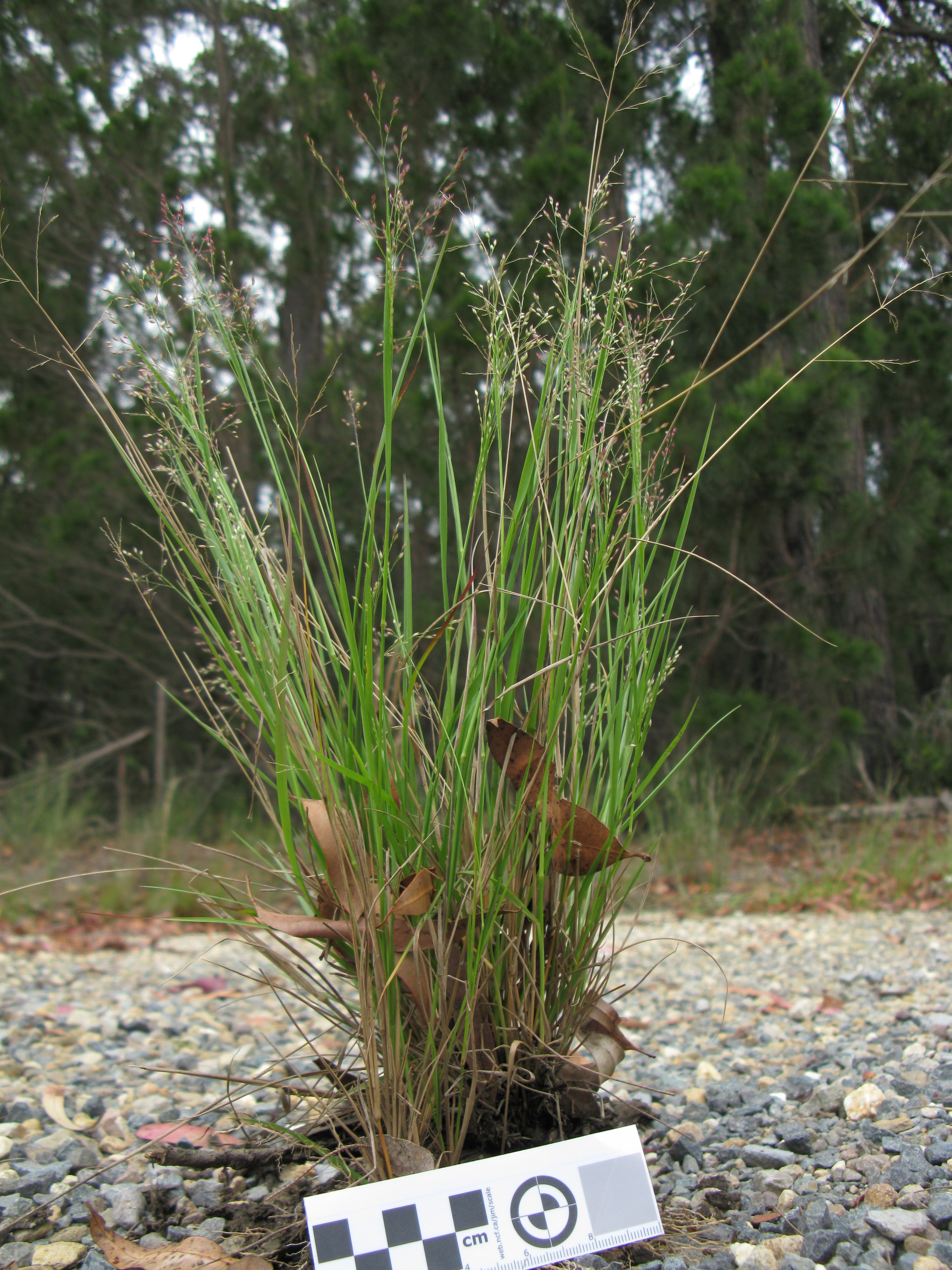 Native, warm-season, perennial, erect to semi-erect grass to 70 cm tall; nodes are hairless. Leaves are 1-3.5 mm wide and often have glandular hairs. Found on low fertility soils (often sandstone) in scrub, woodland and forest.